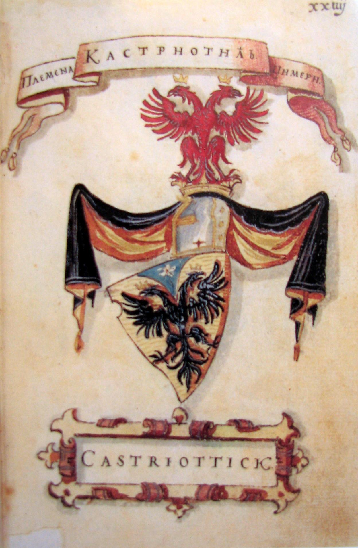 Castriota/Kastrioti/Kastriotic family Coat of Arms according to Korjenić-Neorić Armorial (1595)